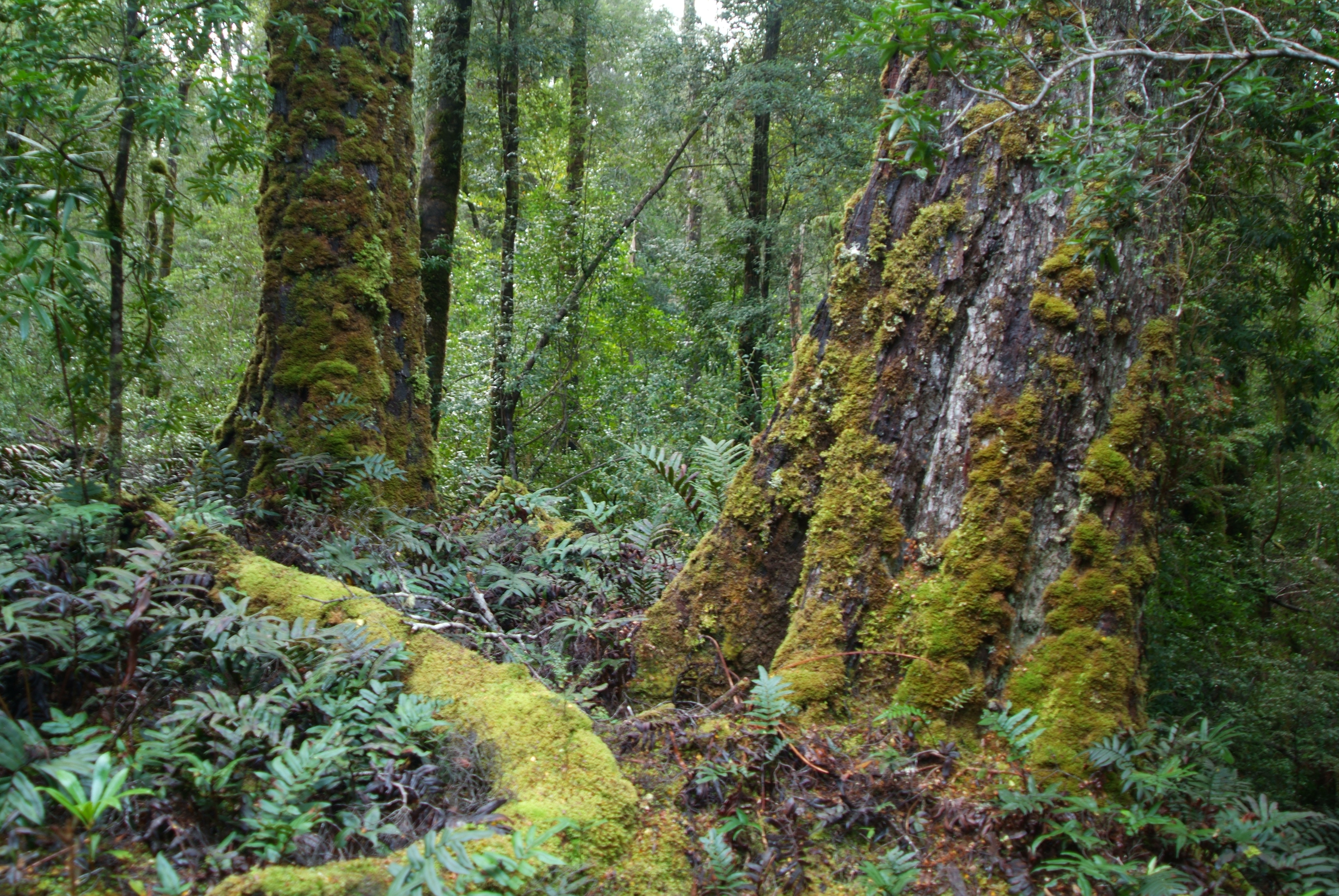 The Tarkine covers 450,000 hectares